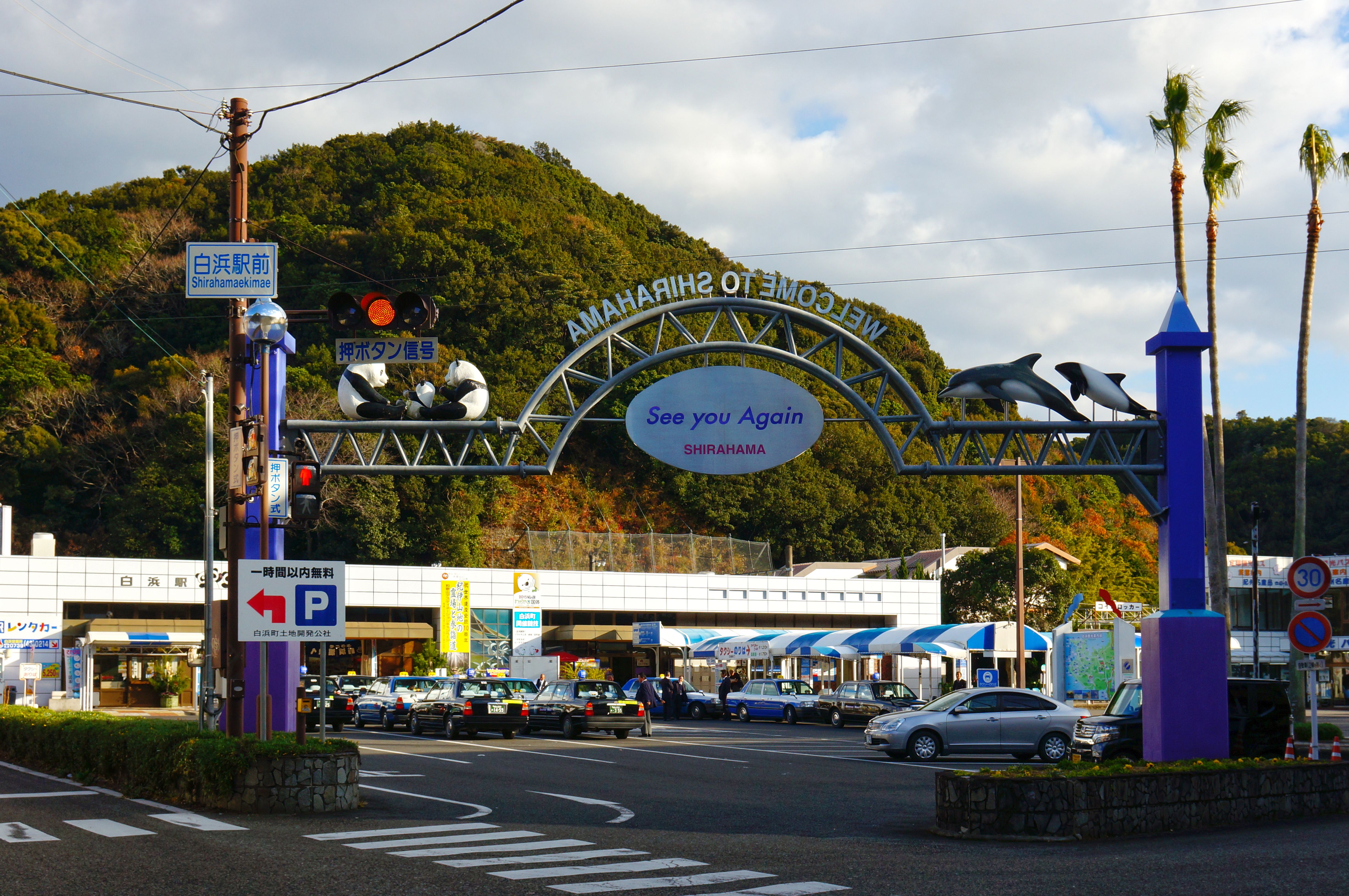 Shirahama_Station in Shirahama, Wakayama prefecture, Japan.